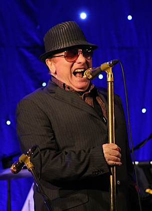 Van Morrison performing in Newcastle, Northern Ireland on August 23, 2015